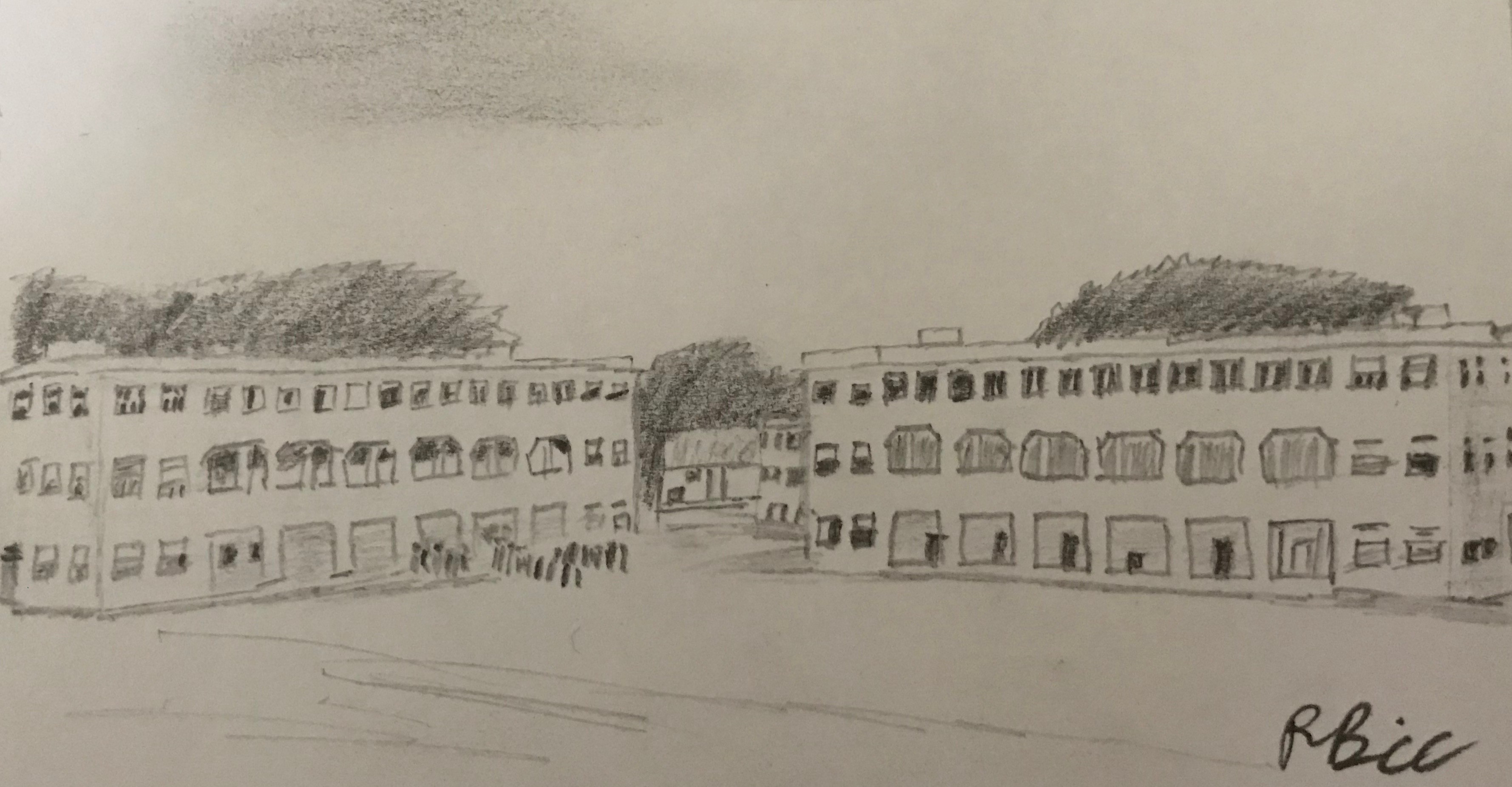 Sketch - Selarang Barracks Changi Singapore - before WW2